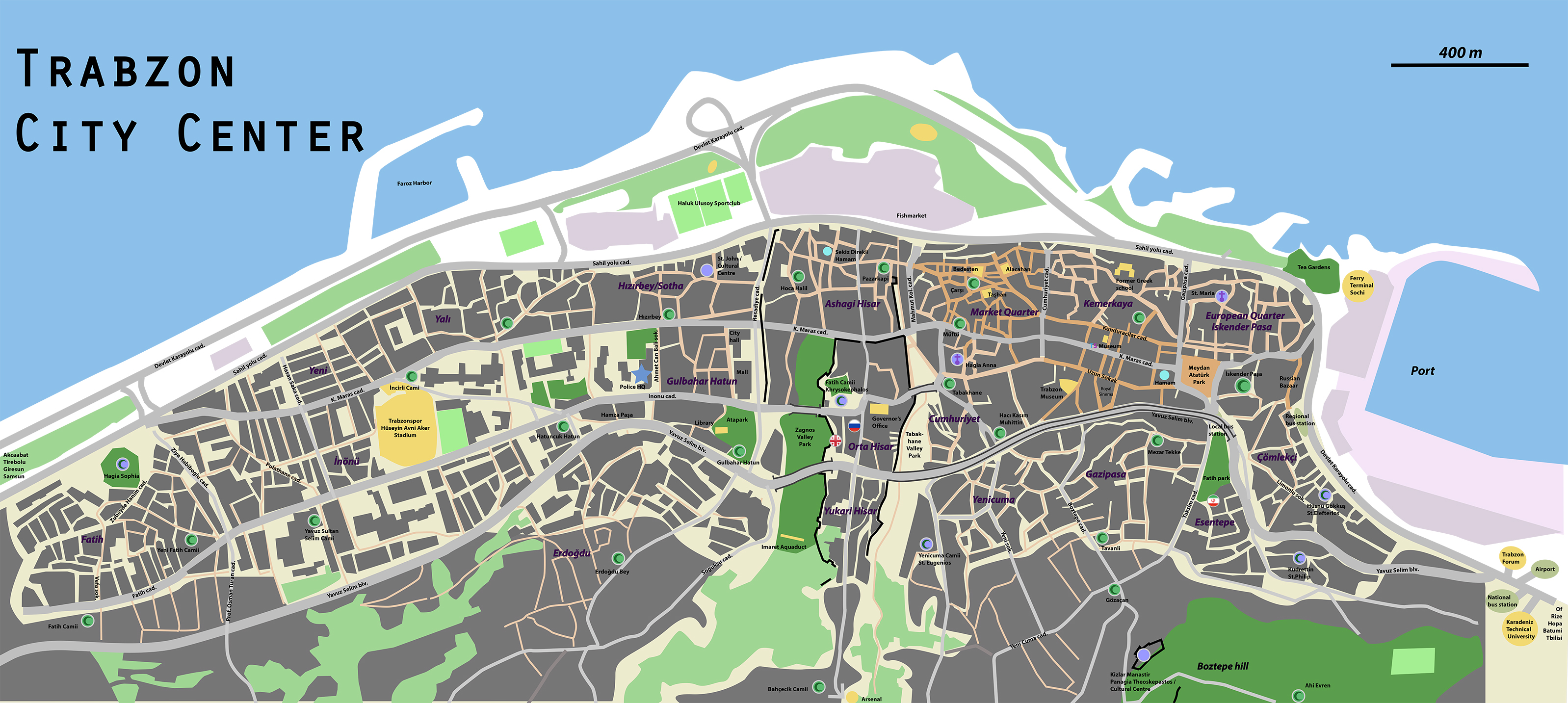 Map of the centre of Trabzon including most important streets, buildings, parks, squares, etc.